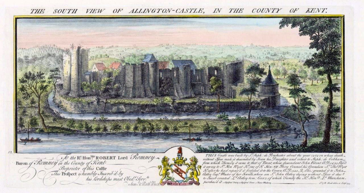 View of Allington Castle from "Views of Ruins of Castles & Abbeys in England, 1726-1742", Samuel & Nathaniel Buck